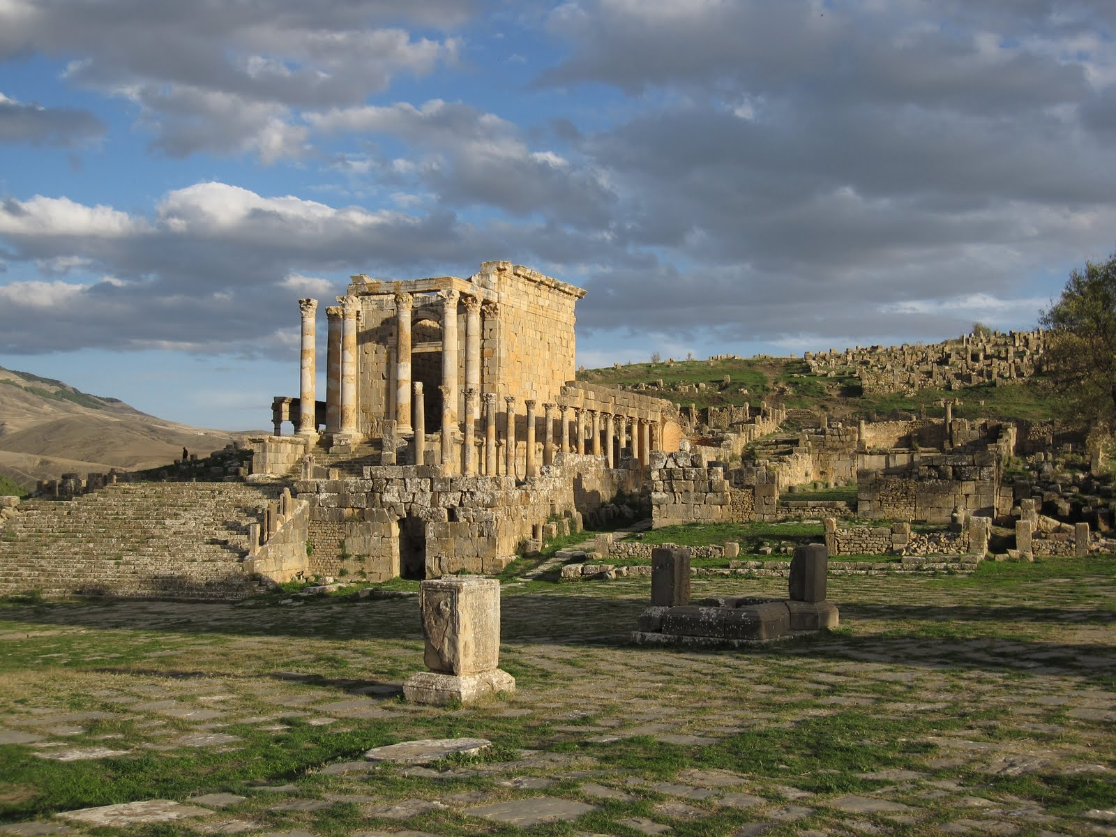 Ruins of Djemila Algeria (UNESCO Site)